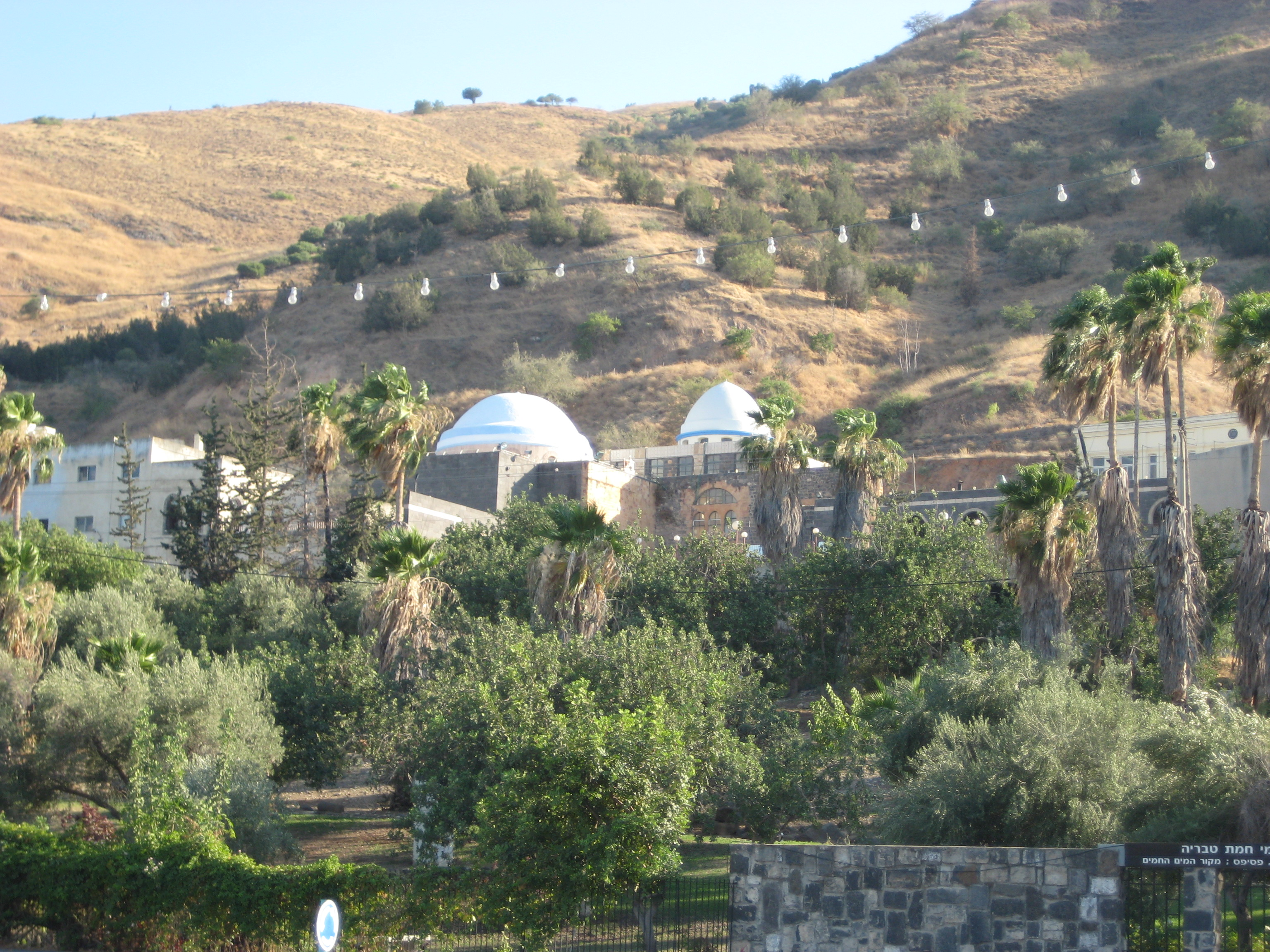 Rabbi Meir Ohel, view from the seashore of the Sea of Galilee